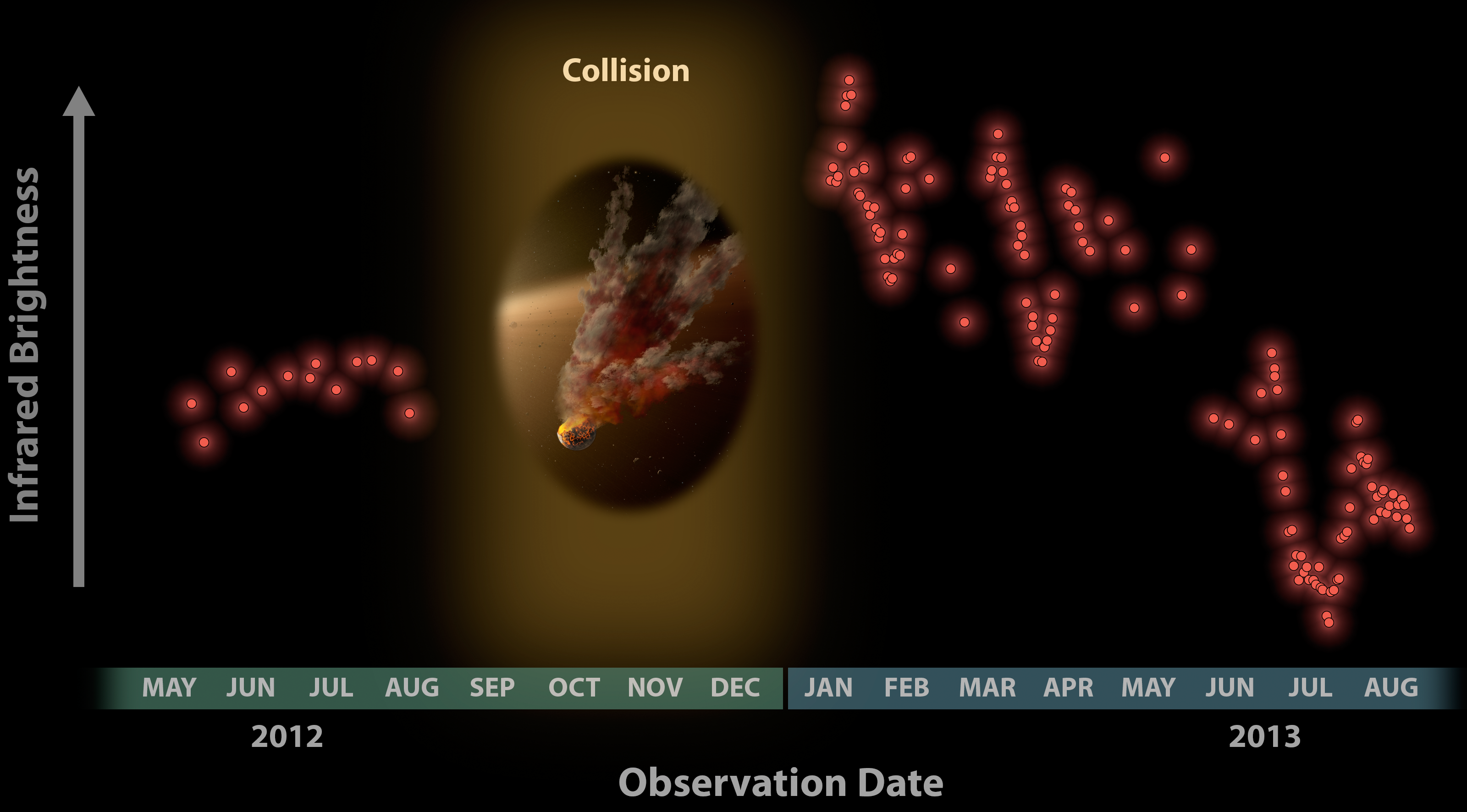 Witnessing a Planetary Wreckage Astronomers were surprised to see these data from NASA's Spitzer Space Telescope in January 2013, showing a huge eruption of dust around a star called NGC 2547-ID8. In this plot, infrared brightness is represented on the vertical axis, and time on the horizontal axis. The data at left show infrared light from the dust around the star back in 2012. Between 2012 and 2013, Spitzer had to stop observing the star because it was located behind the sun, as seen from Spitzer's Earth-trailing orbit. When Spitzer began watching the star again in January 2013, the astronomers noticed a huge jump in the data. (The red and blue data plots show different infrared wavelengths.) Why the dramatic change? The team says that dust in the star system surged intensely, likely after two large asteroids collided, kicking up fresh dust. The periodic variability of the signal is caused by the remaining dust cloud in orbit around the star. This dust cloud is elongated, so the amount of infrared signal it produces changes as it circles the star from our point of view. The infrared signal is decreasing over time as dust from the collision is ground down to finer sizes and blown of the system.